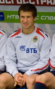 Vadim Gagloev as a player of PFC CSKA Moscow